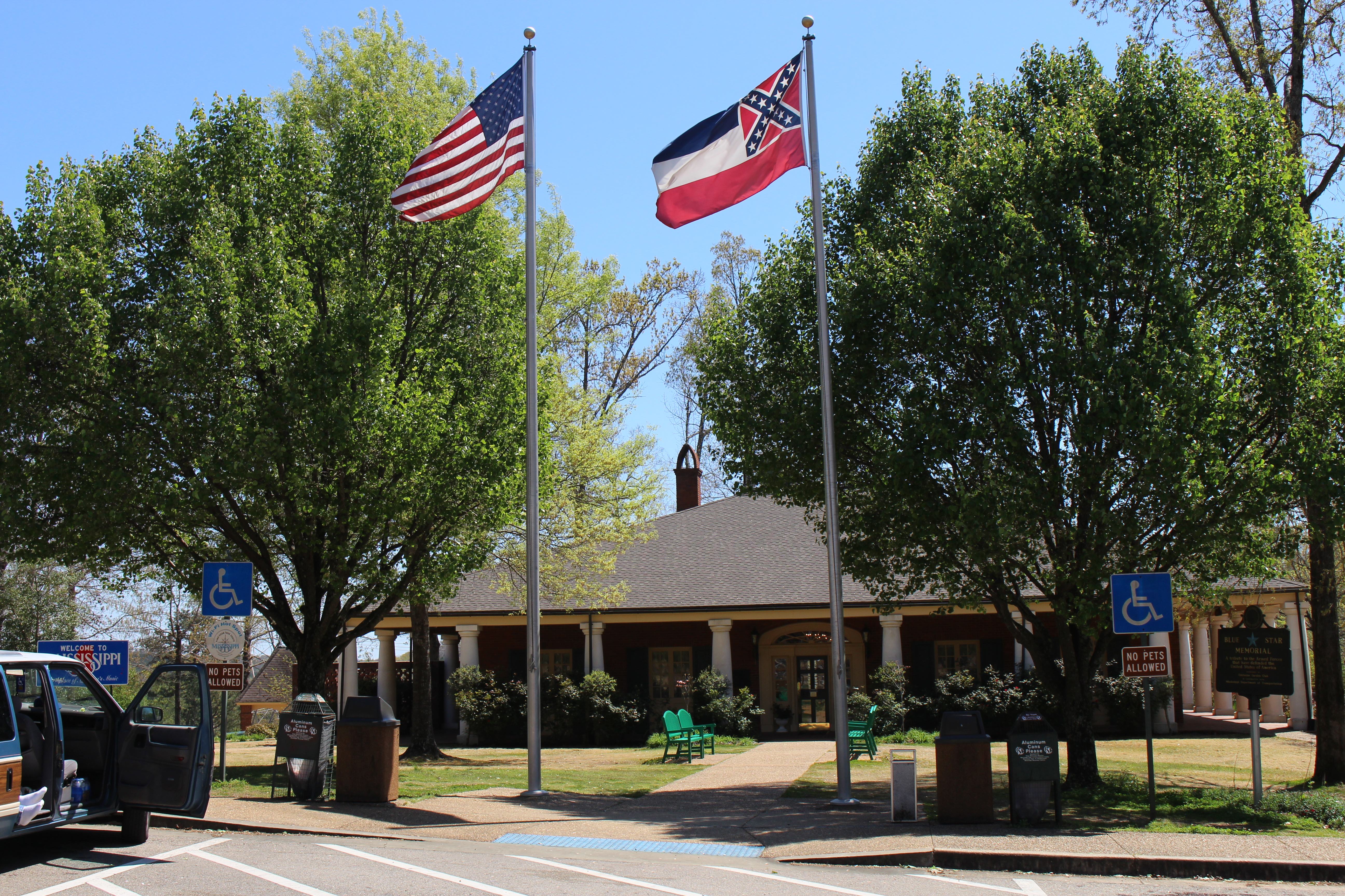 Mississippi Welcome Center (Tremont), Itawamba County, Mississippi